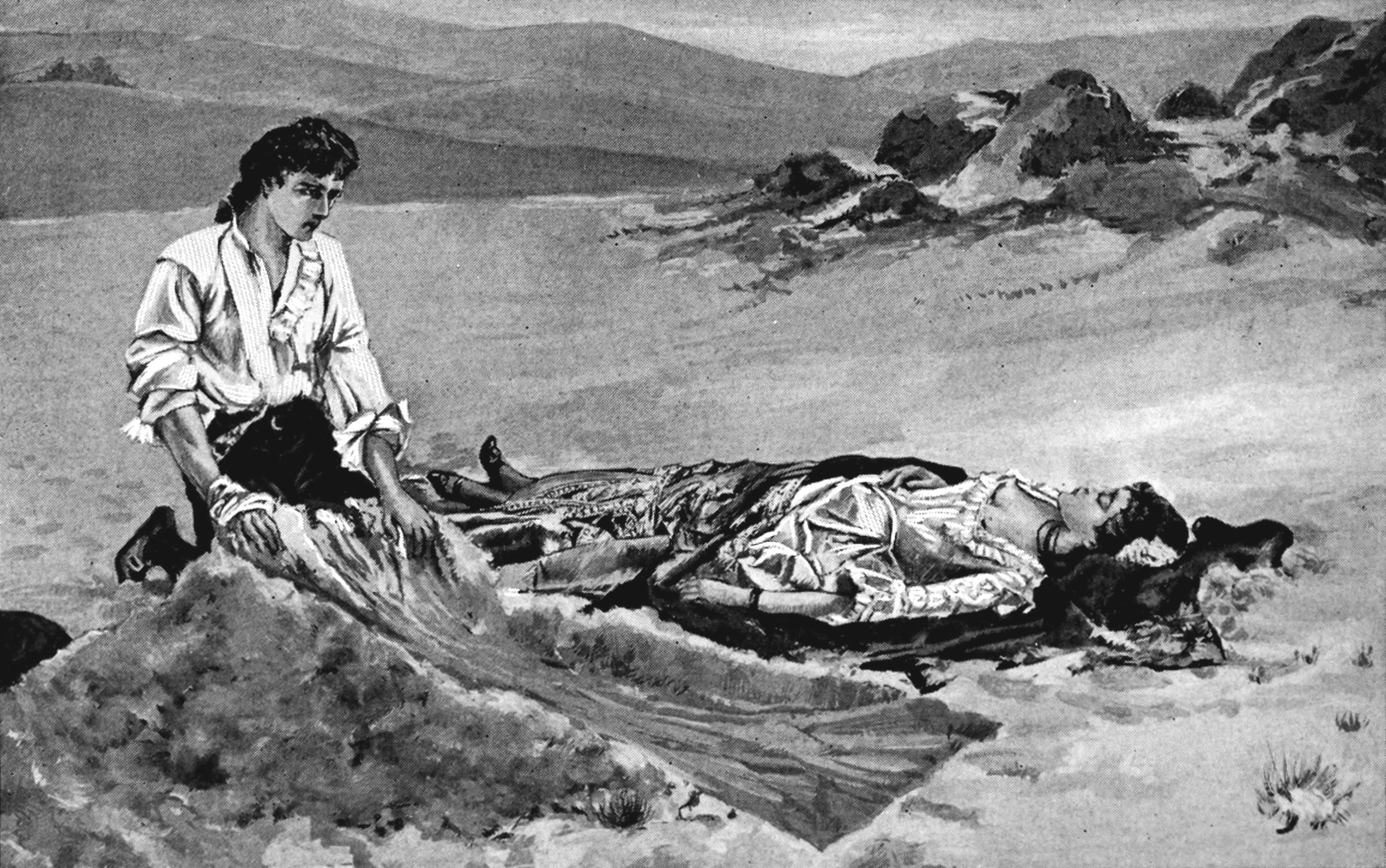 Puccini - Manon Lescaut, act IV - The burial of Manon Title: The Victrola book of the opera : stories of one hundred and twenty operas with seven-hundred illustrations and descriptions of twelve-hundred Victor opera records Year: 1917 (1910s) Authors: Victor Talking Machine Company Rous, Samuel Holland Subjects: Operas Publisher: Camden, N.J. : Victor Talking Machine Co. Text Appearing Before Image: CARUSO AS DES GRIEUX MISCELLANEOUS MANON LESCAUT RECORDS )Tra voi belle brune Franco de Gregorio, Tenor (In Italian)Madrigale—Sulla vetta del monte (Speed Oer Summit)By Lopez-Nunes, Soprano, and Chorus (In Italian)/Donna non vidi mai Egidio Cunego, Tenor (In Italian) \ Tosca—Gia mi struggea By Ernesto Badini, Baritone (In Italian)(Ah! Manon, mi tradisce Franco de Gregorio (In Italian) \ Gioconda—Cielo e mar ! (Heaven and Ocean) By de Gregorio/Ah! Manon, mi tradisce By Giorgio Malesci (In Italian)\ Ernani—Infelice e tu credevi Aristodemo Sillich, Bass (In Italian) 45015 10-inch, $1.00 45016 10-inch, 1.00 4502 7 10-inch, 1.00 63421 10-inch. .75 Text Appearing After Image: THE UURIAL OF MANON—ACT V 288